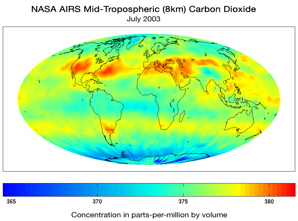 Although originally designed to measure atmospheric water vapor and temperature for weather forecasting, scientists working with the Atmospheric Infrared Sounder (AIRS) instrument on the NASA Aqua Spacecraft are now using AIRS to observe atmospheric carbon dioxide. Scientists from NASA, NOAA, ECMWF, UMBC, Princeton and CalTech using several different methods are measuring the concentration of carbon dioxide in the mid-troposphere (about 8 km above the surface). The global map of carbon dioxide above, produced by AIRS Team Leader Dr. Moustafa Chahine at JPL, shows that despite the high degree of mixing that occurs with carbon dioxide, the regional distribution can still be seen by the time the gases reach the mid troposphere. Climate modelers are currently using the AIRS data to understand the global distribution and transport of carbon dioxide and improve their models.